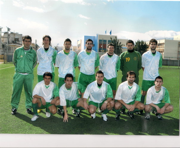 Milos Vukomanovic